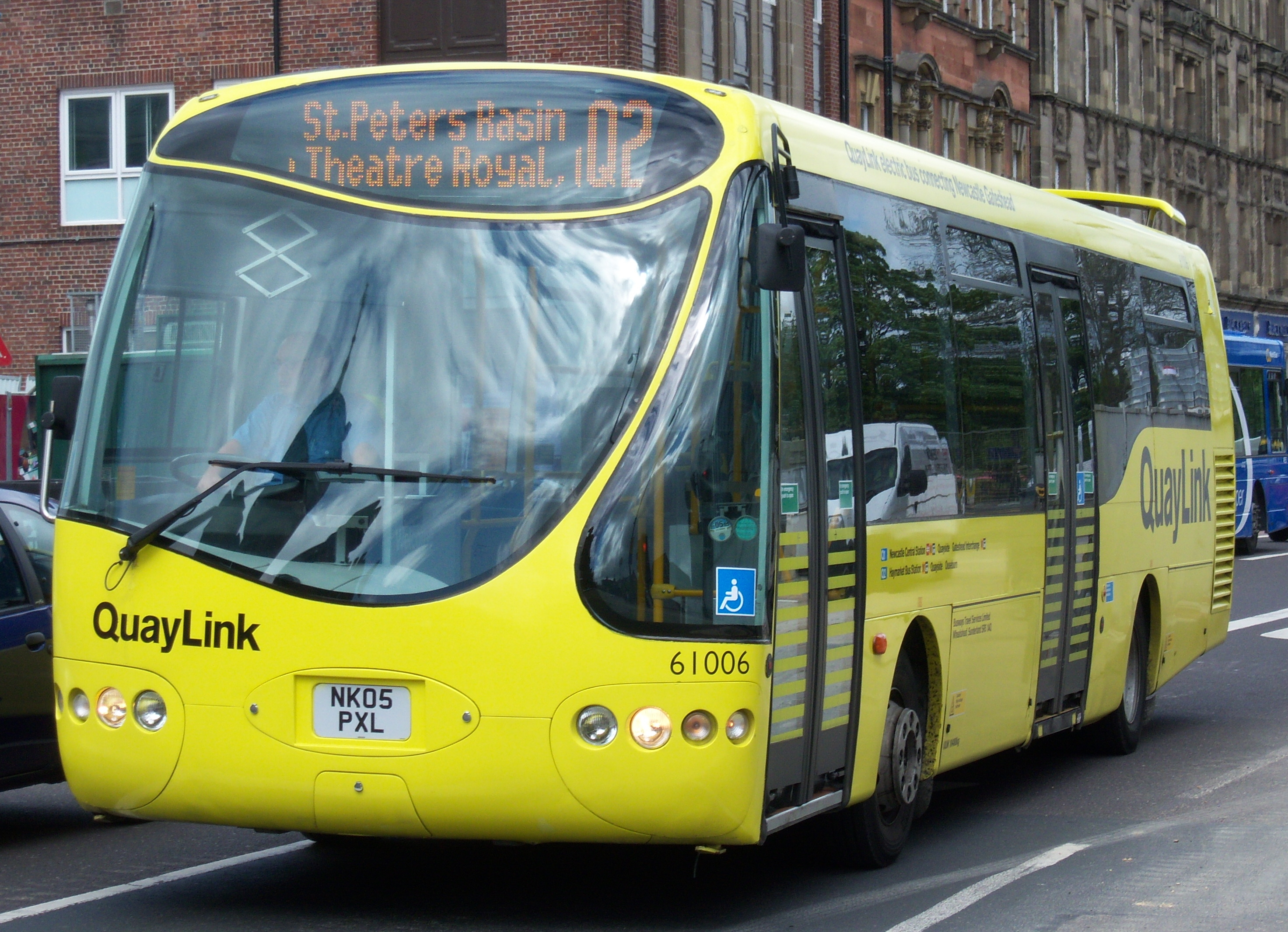 Quaylink bus 61006 (NX05 PXL), in Newcastle upon Tyne.